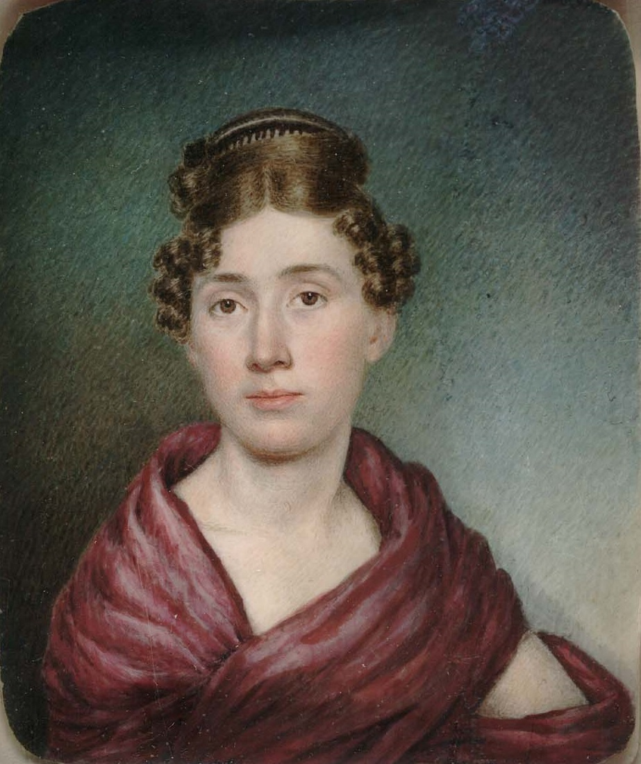 Sarah Goodridge: Self-Portrait